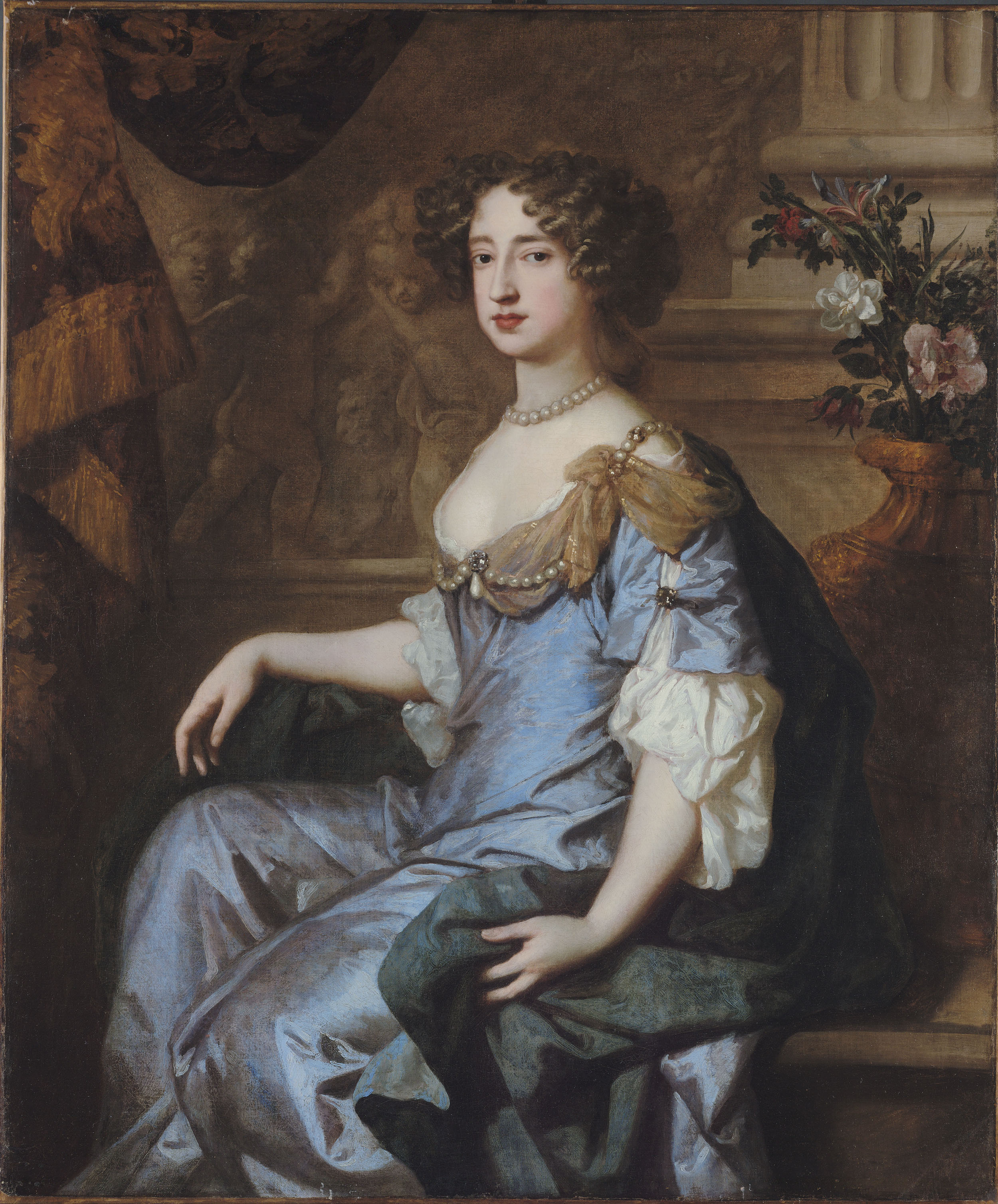 A copy (one of several?) of Lely's portrait of Queen Mary II of England in the British Royal Collection. In the Royal Collection copy, and in the one in the National Portrait Gallery (London), she wears an orange dress, but in this one, the dress is blue. In another copy, the dress is grey or lilac. The present copy could be from the studio of Lely, or it could be autograph, or a combination of both.